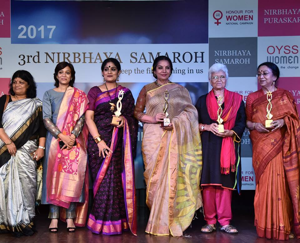 Nirbhaya Samaroh founder & women activist Manasi Pradhan with recipients of 2017 Nirbhaya Puraskar Shabana Azmi, Kamla Bhasin, Meenakshi Gopinath and Geeta Chandran